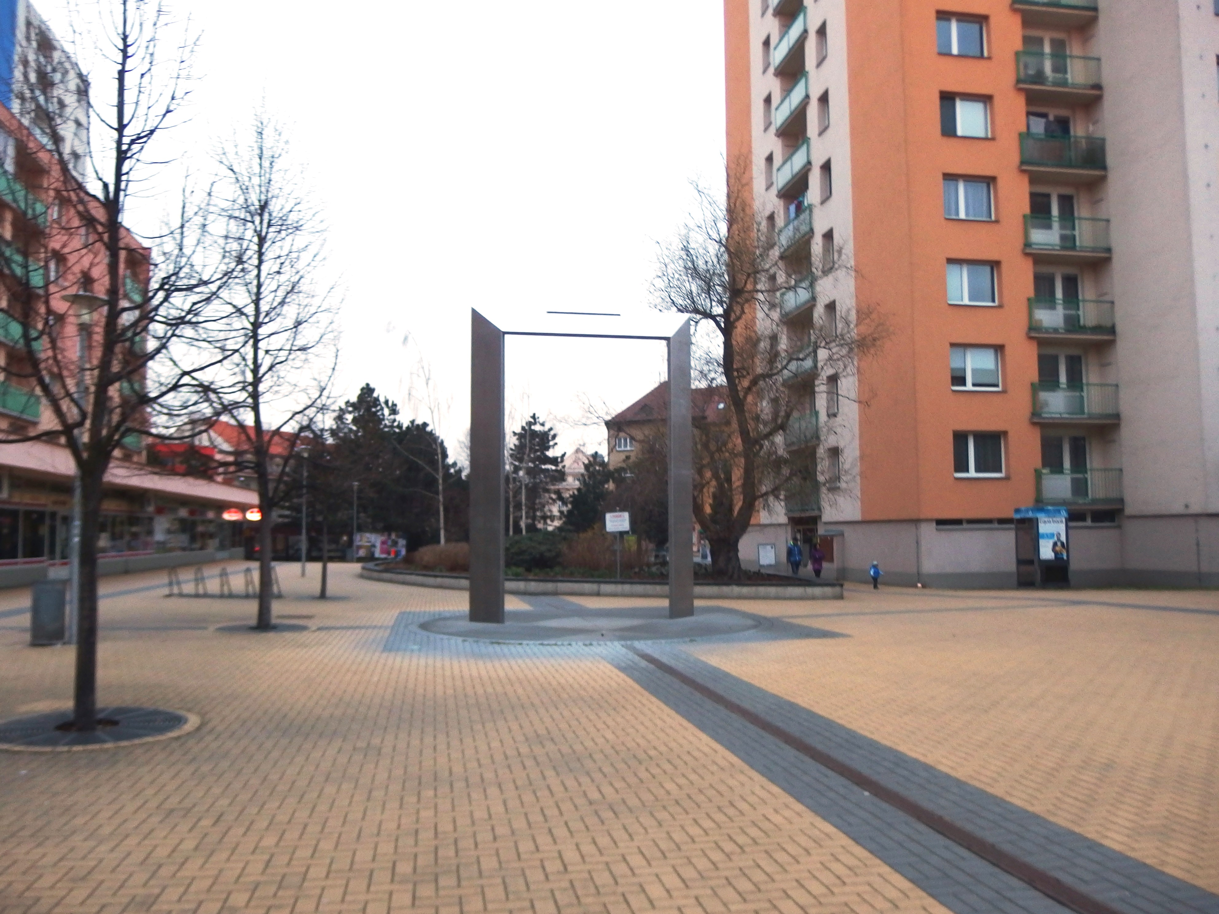 Pardubice, Czech Republic.